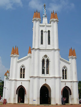 Our Lady of Snow Basilica (Manjumatha), Pallippuram, Kerala, India under the Catholic Diocese of Kottappuram